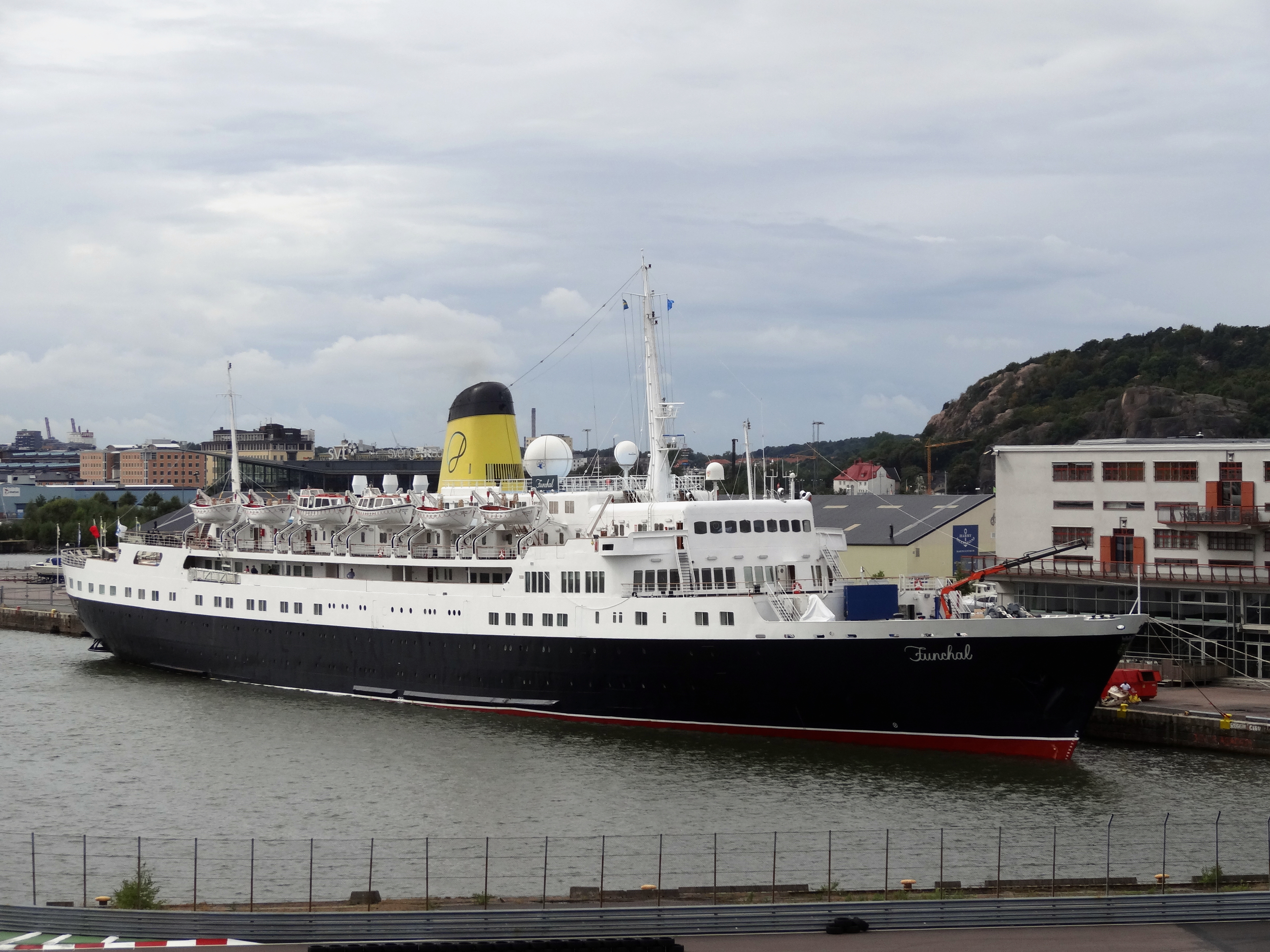 Funchal in Frihamnen, Göteborg, Sweden, on August 30, 2013.